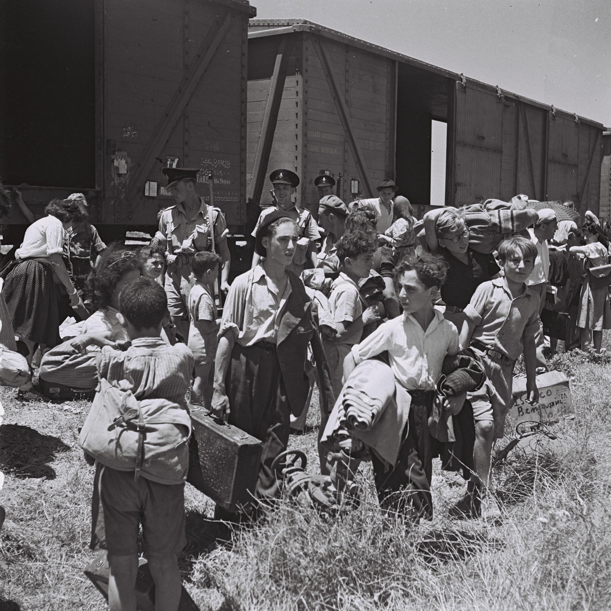 Children who survived the Holocaust alight from a train at Atlit refugee camp in Mandatory Palestine